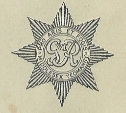 Cap badge as worn at the outbreak of World War II